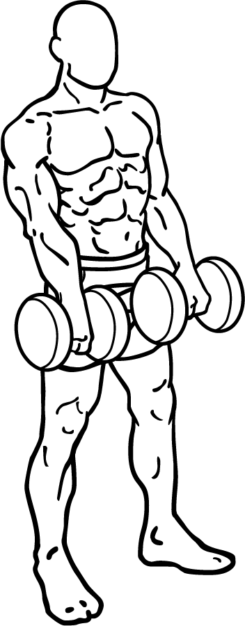 an exercise of shoulders